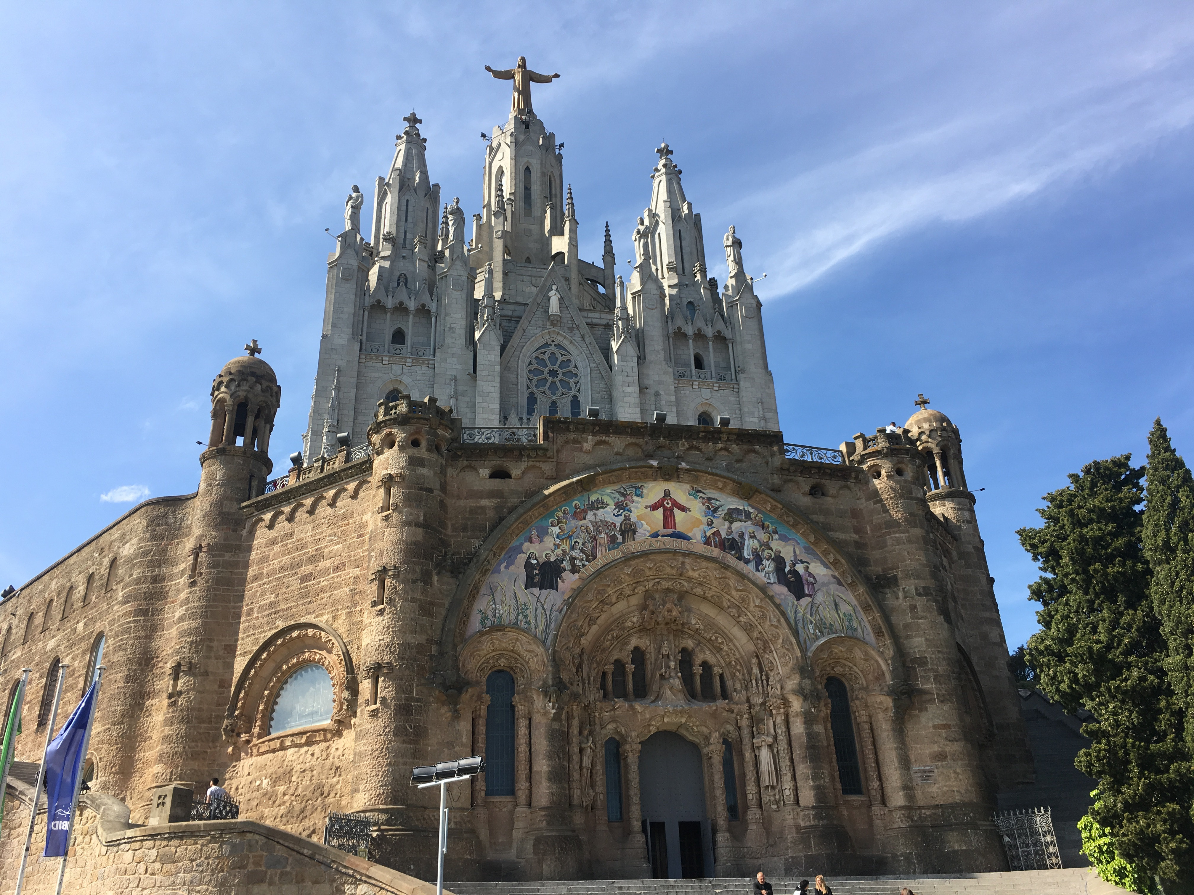 Temple del Sagrat Cor vist des de la Talaia del Tibidabo, barcelona